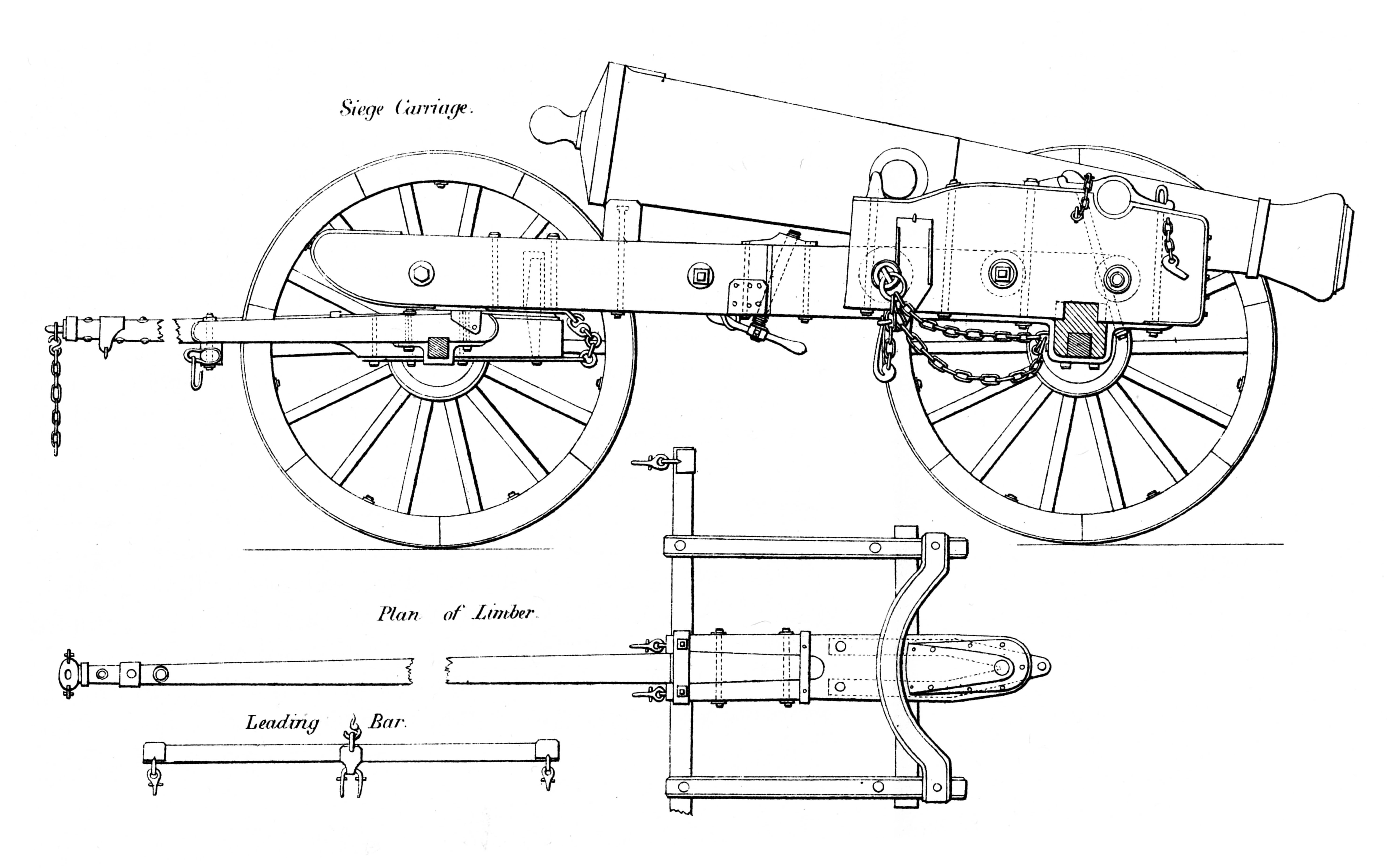 Line engraving of a siege gun on a limber